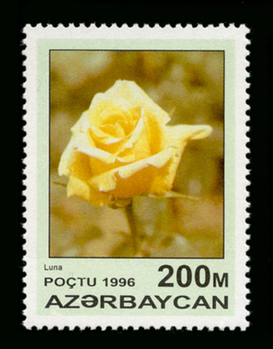 Stamp of Azerbaijan, Rosa cultivars 'Luna'